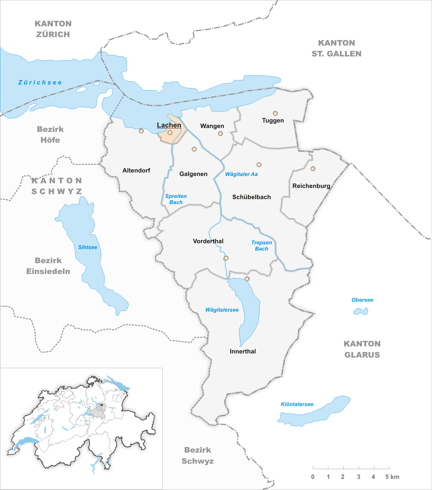 Municipality Lachen